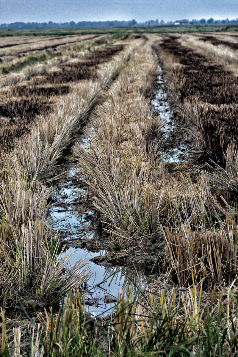 Rice culture in Gharb